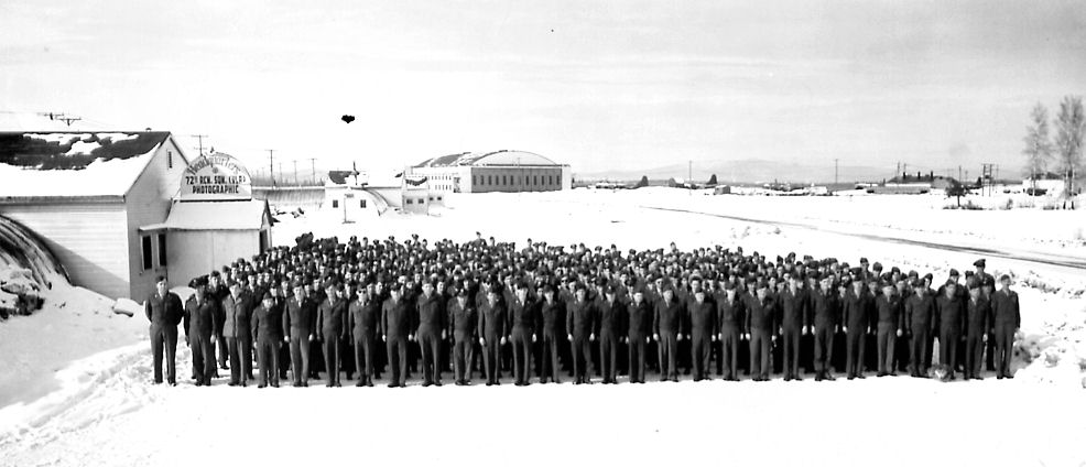 Group photo of the 46th/72d Reconnaissance Squadron